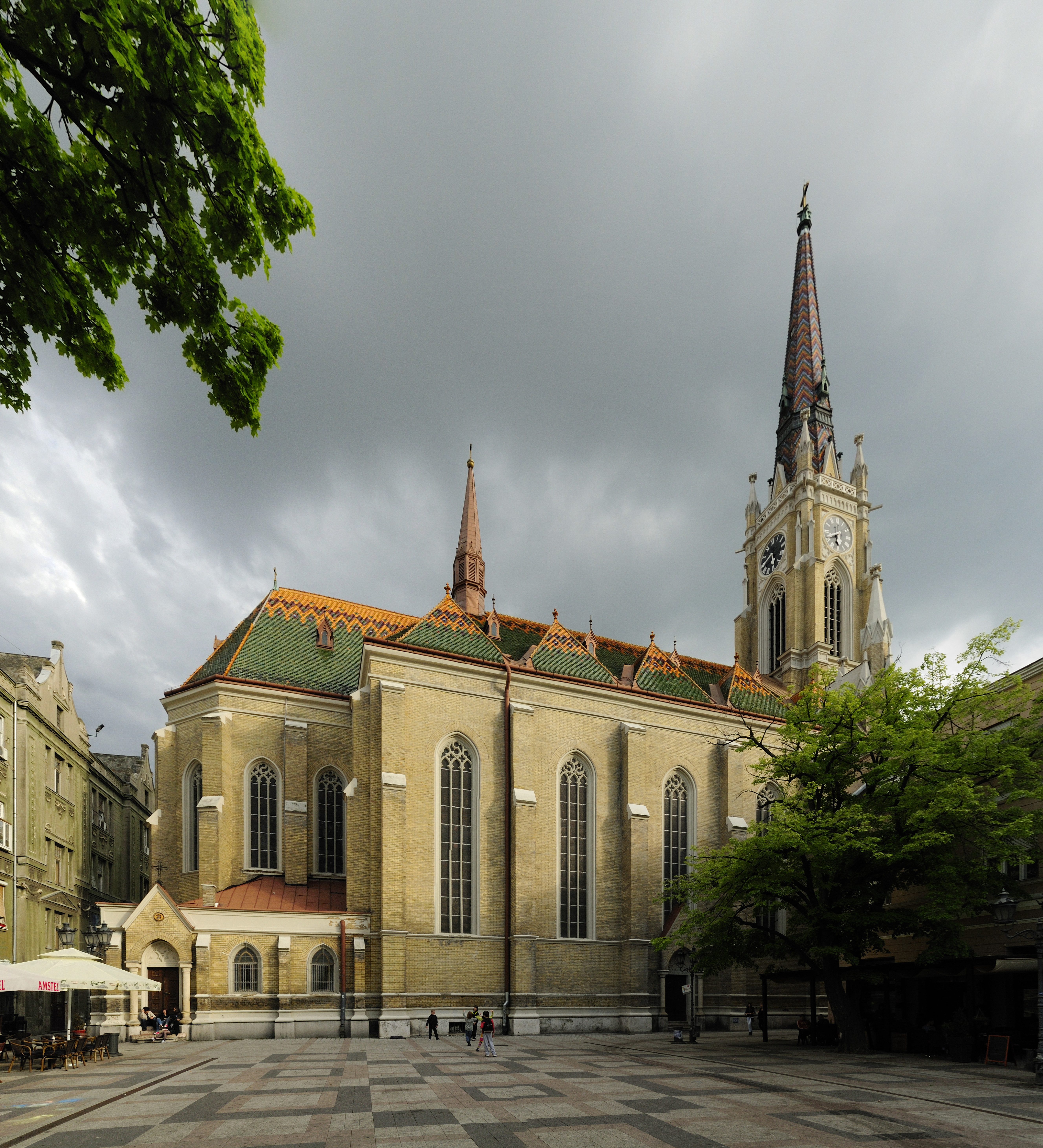 The Name of Mary Church in Novi Sad, Serbia